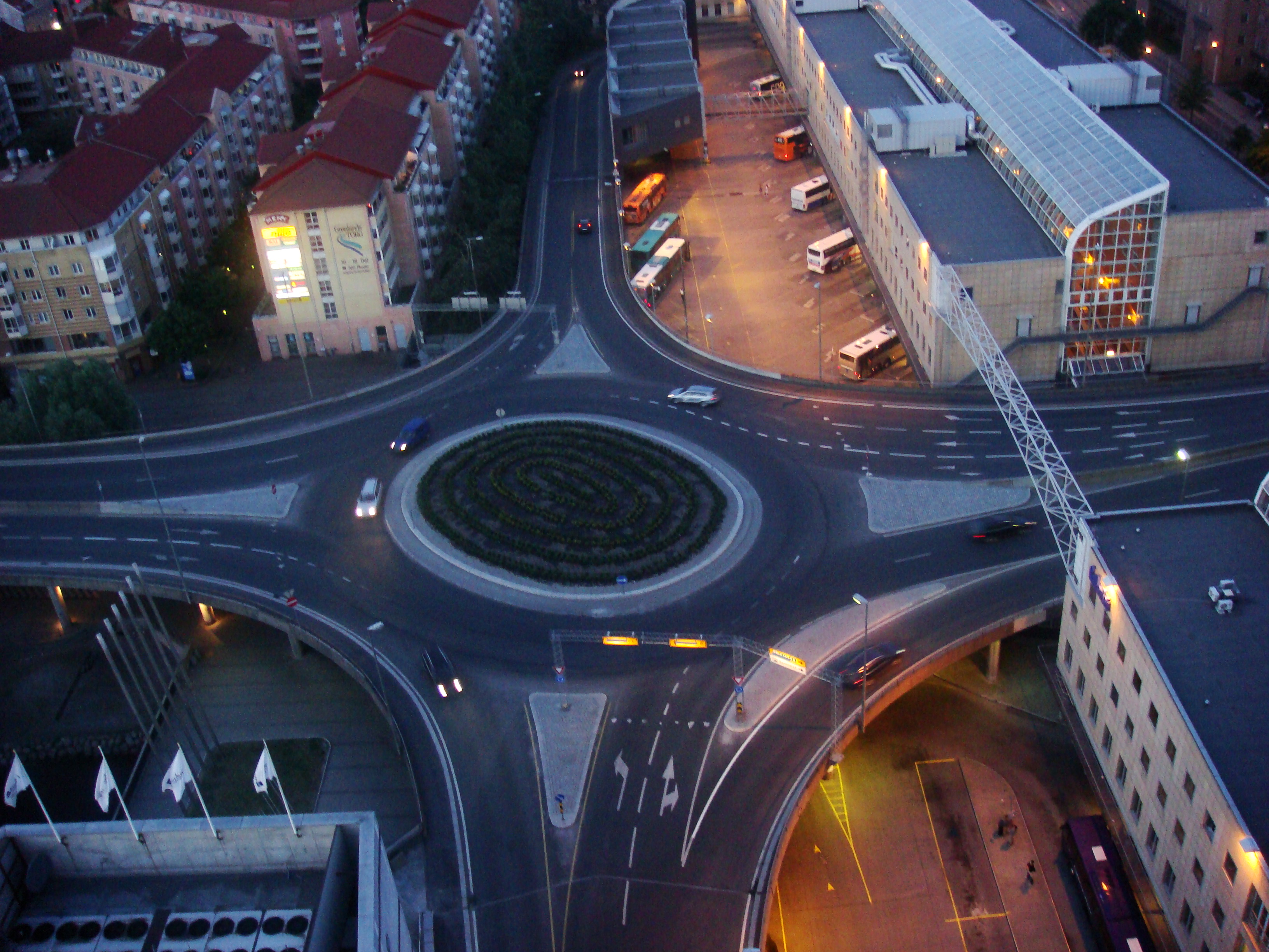 Roundabout in Oslo, Nylandsveien as Riksvei 162 (unntil 2010:Riksvei 4)